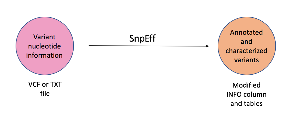 Inputs and outputs of SnpEff.